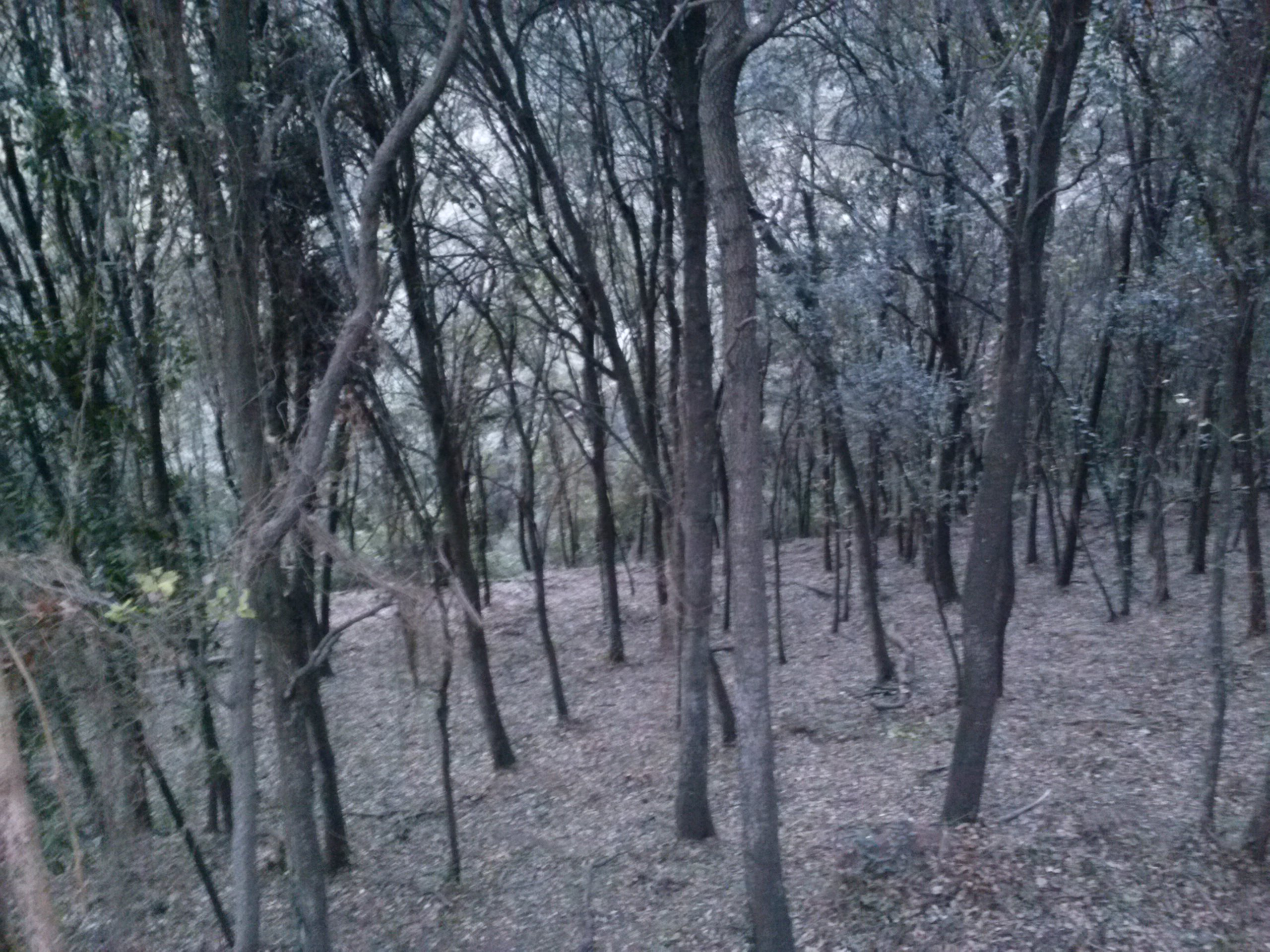 Les Casetes del Congost, "La Casa Nova Wood", Tagamanent (Catalonia)